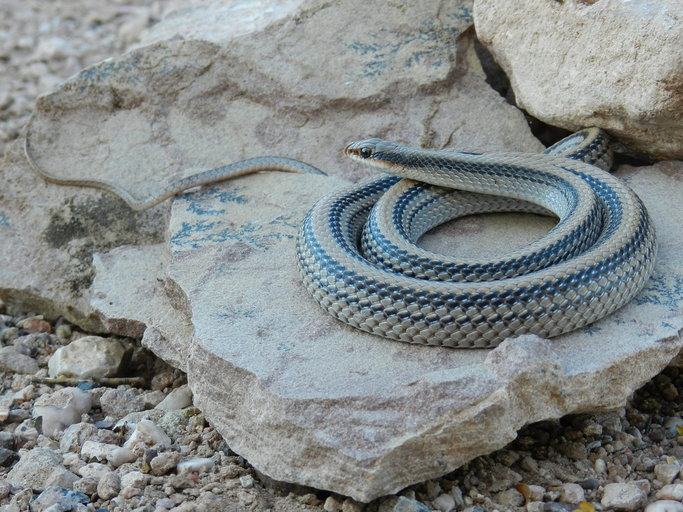 Salvadora deserticola at Indio Mountains Research Station (Hudspeth County, Texas, US)